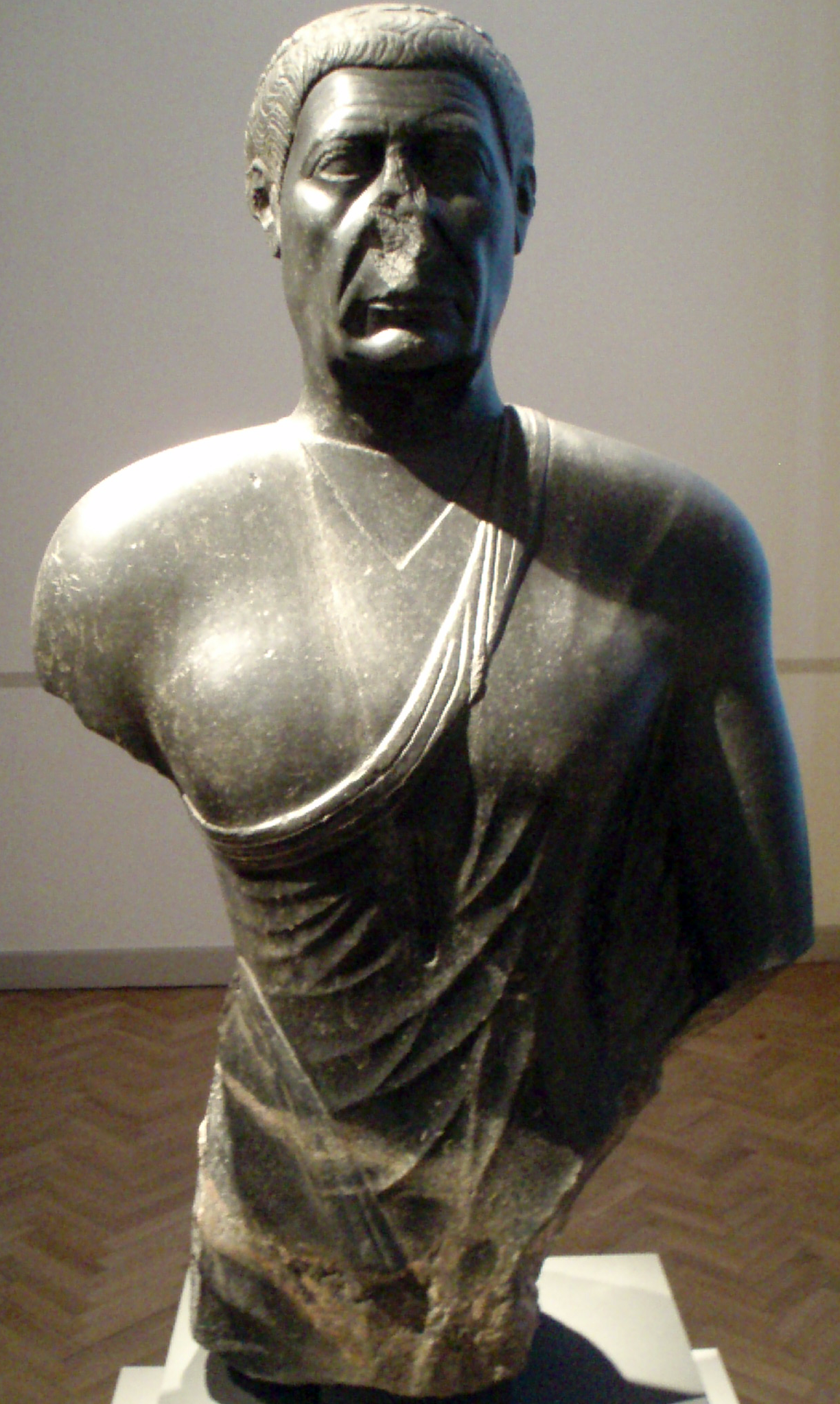 Photo of late period statue of Hor, Son of Tutu. Made of granite, likley from the Sais period, circa 300-250 B.C. Image taken at the Altes Museum, Berlin.